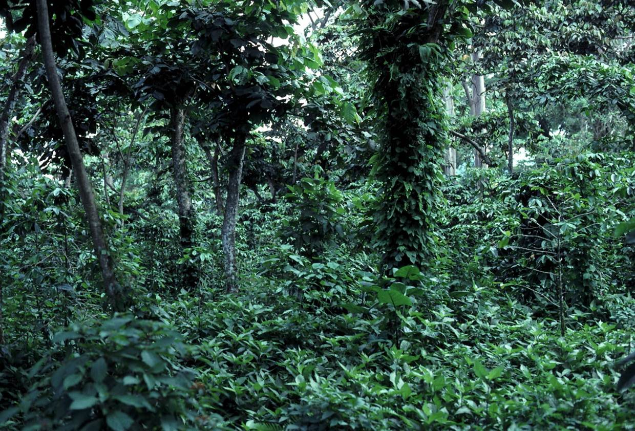 Shade coffee plantation in Guatemala. This image is typical of a traditional shade coffee plantation in which only some or none of the canopy has been removed and coffee crops have been added.